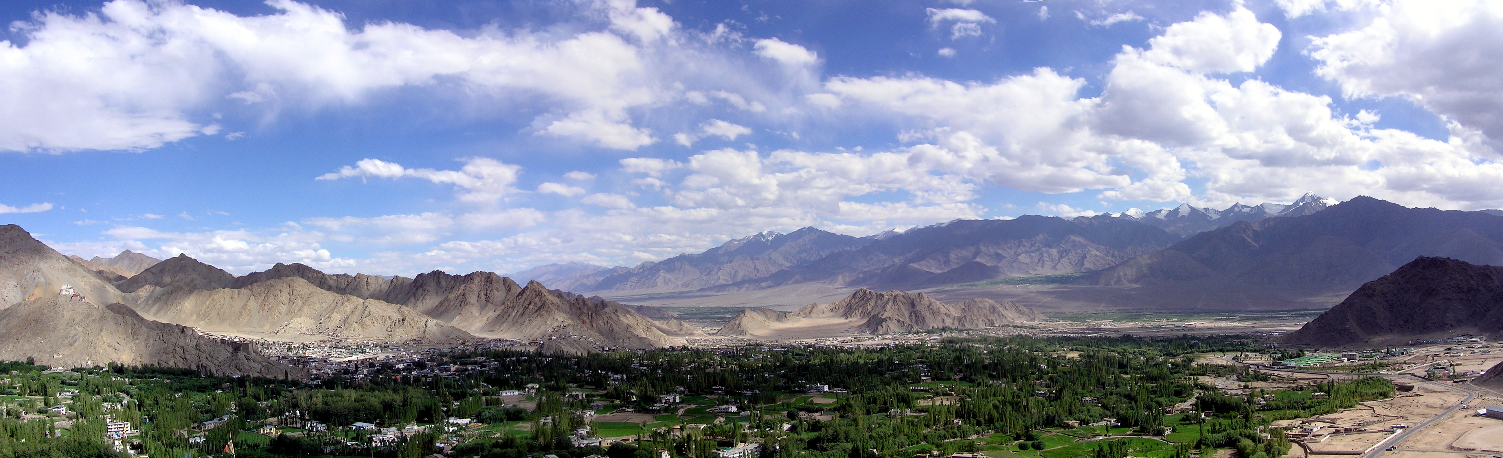 Panoramic vue from Shanti Stupa (Leh, Ladakh, India), of Indus Valley and city of Leh.